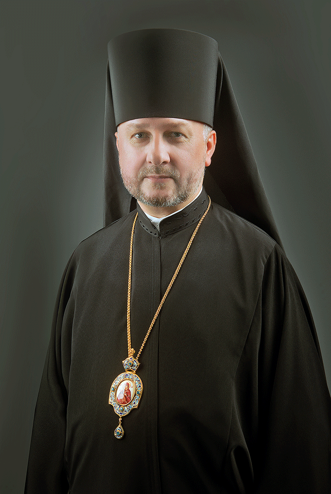 His Grace, Bishop ANDRIY (Peshko), Bishop of the Eastern Eparchy, Ukrainian Orthodox Church of Canada.